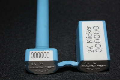 This is a High Security Bolt Seal Manufactured to confirm with ISO 17712:2013 and C-TPAT Regulations.